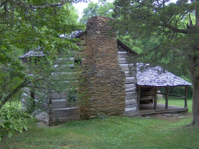 The King-Walker Cabin at Little Greenbrier (Great Smoky Mountains), built ca. 1859 by Wiley King with later additions by John Walker. A corn crib (in the distance) and springhouse are also located at the site.